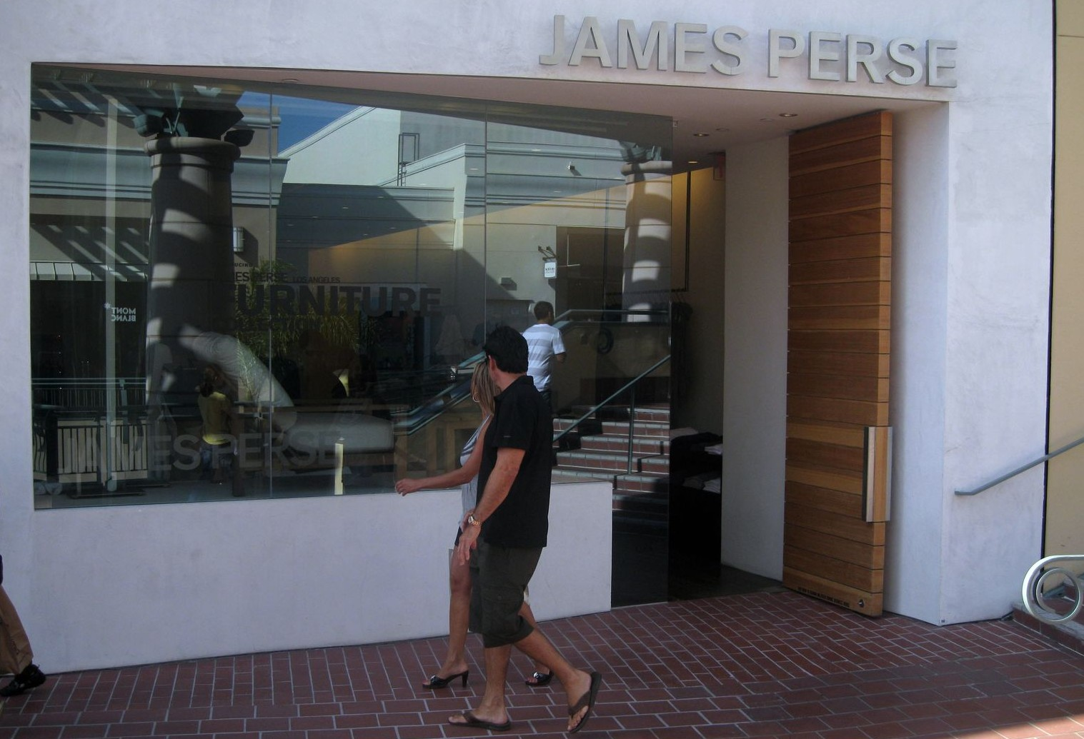 A James Perse fashion boutique in Fashion Valley Mall, San Diego, July 2009.